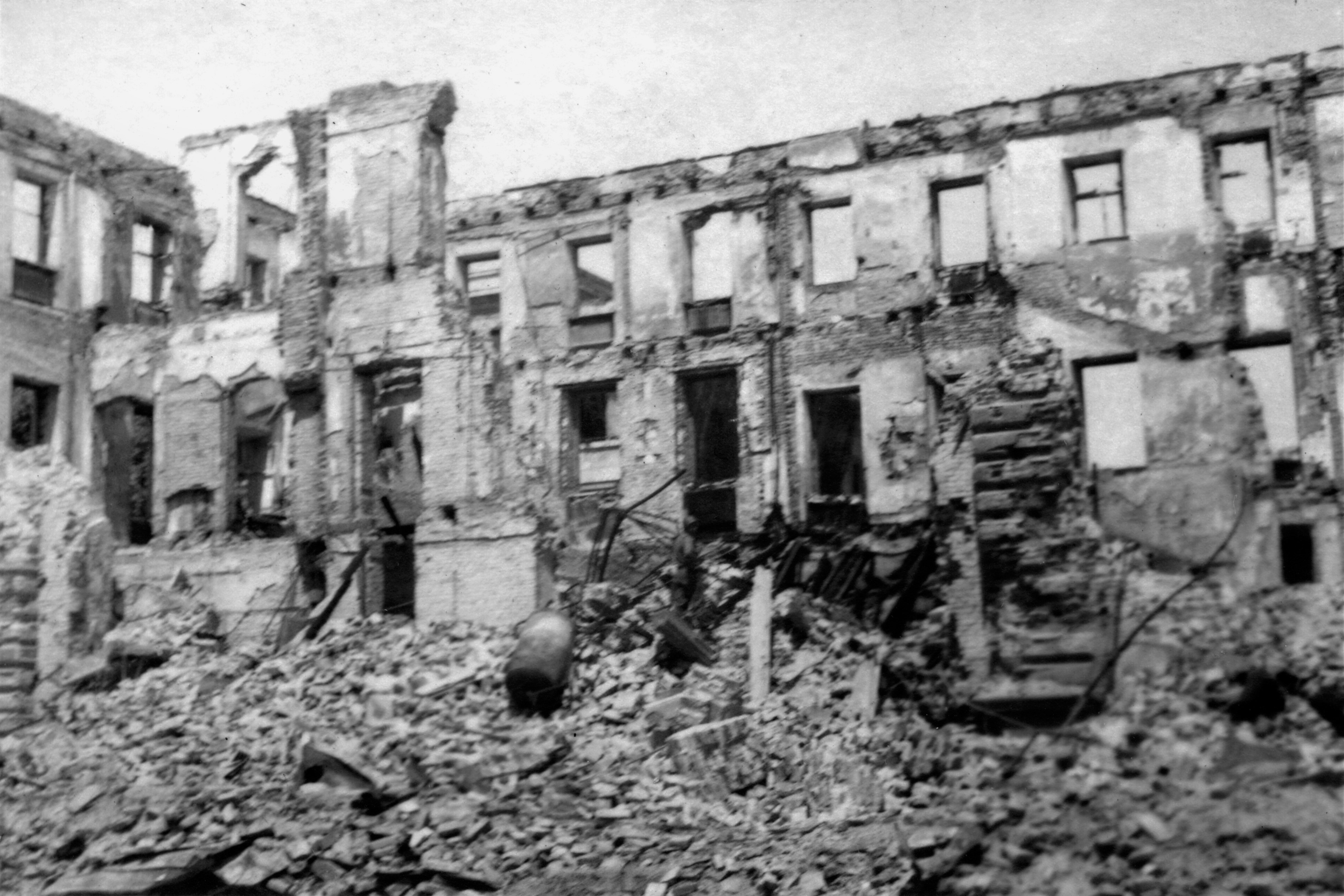 This picture was taken by my late father, Max Wantman. It was labeled by him on the back: Hitler's "Brown House", Munich, July 15, 1945. As far as I know, none of my father's pictures were taken in his official capacity as a Medic in the U.S. Army.